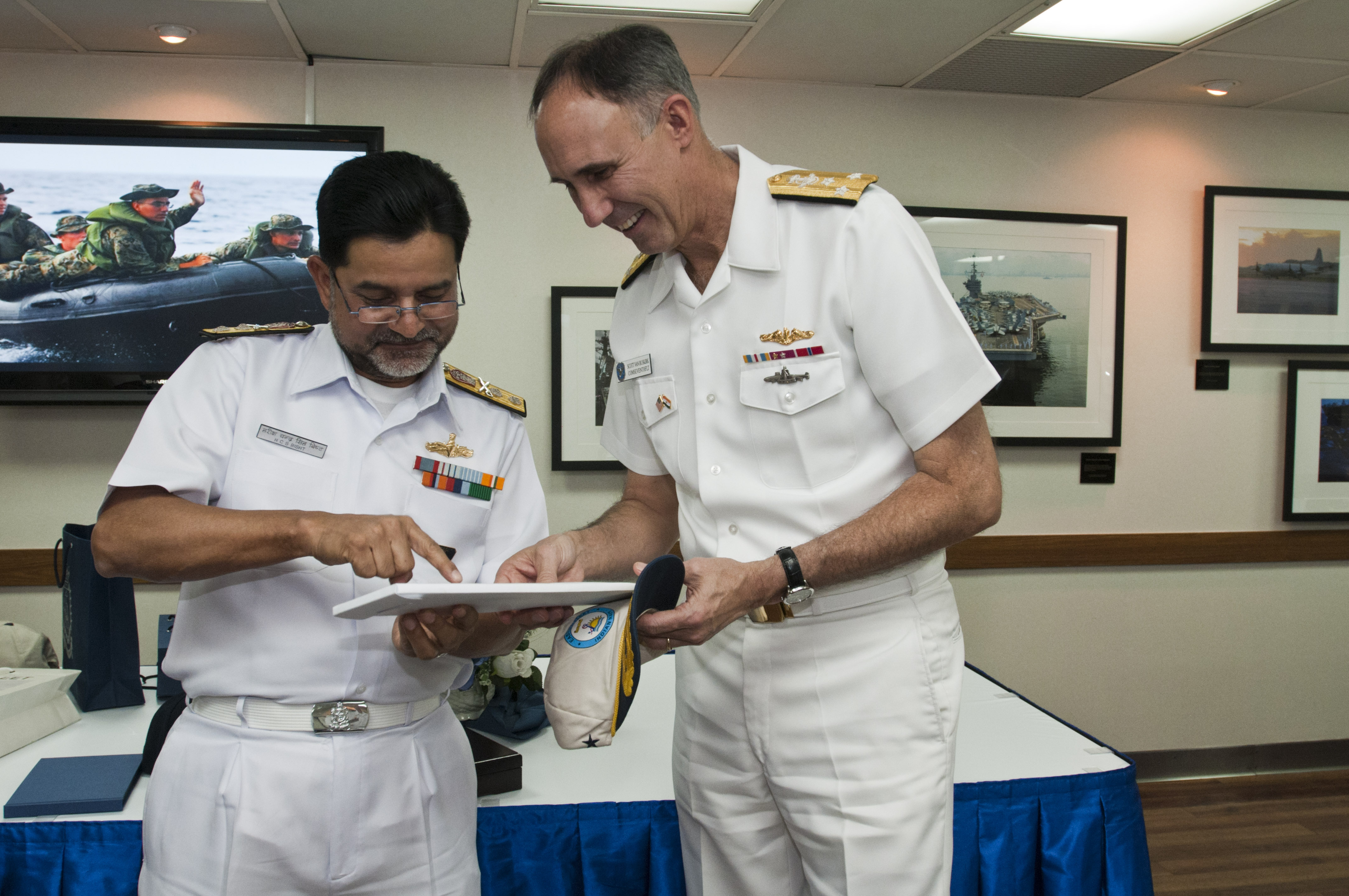 PHILIPPINE SEA (April 7, 2011) Indian navy Rear Adm. HCS Bisht, flag officer of Commanding Eastern Fleet, presents a gift to Vice Adm. Scott R. Van Buskirk, commander of U.S. 7th Fleet, aboard the U.S. 7th Fleet command ship USS Blue Ridge (LCC 19). Bisht visited Blue Ridge in support of exercise Malabar 2011, the latest in a continuing series of training operations conducted to advance multinational maritime relationships and mutual security issues. (U.S. Navy photo/Released)